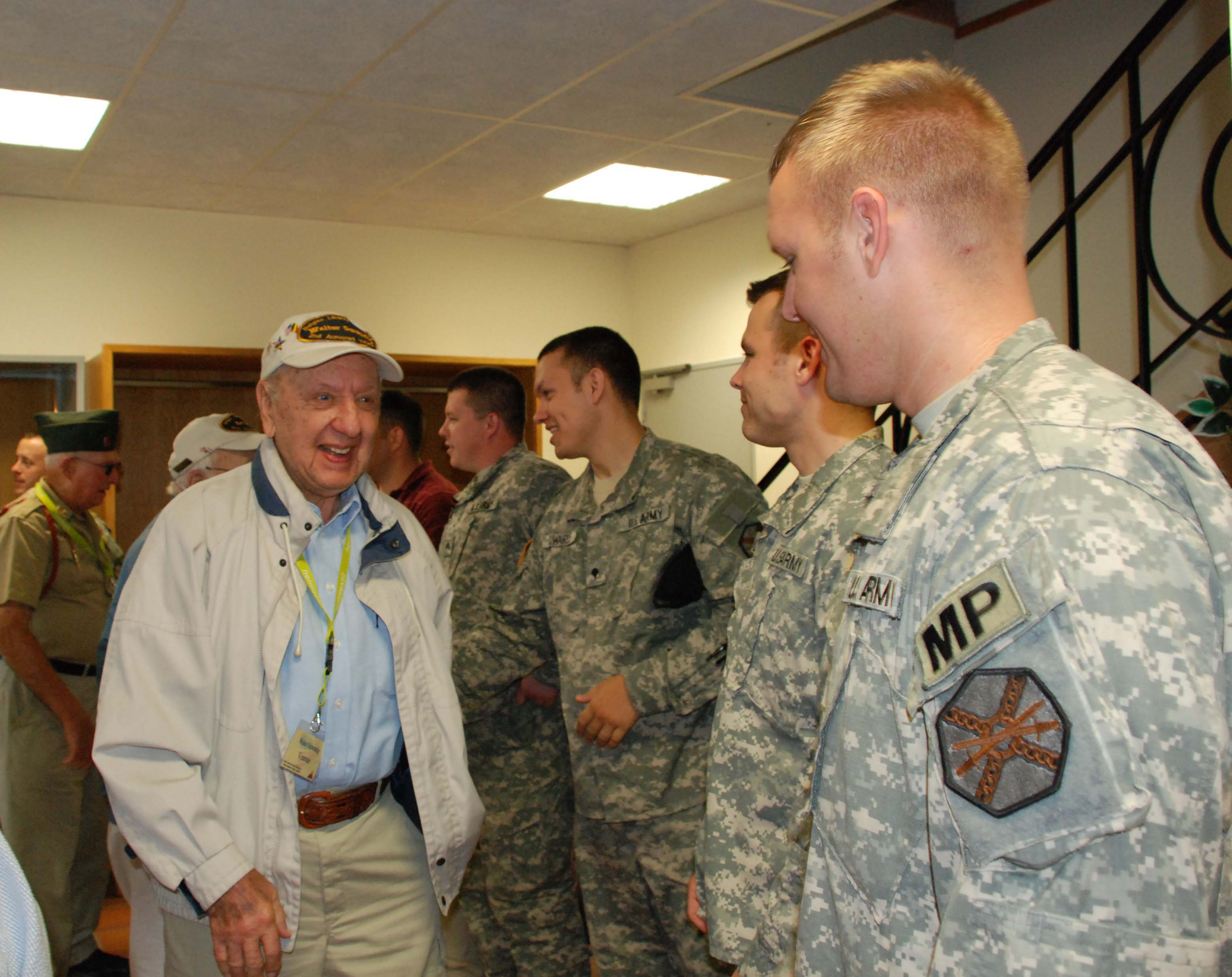 Members of USAG Benelux Headquarters, Headquarters Company line up to meet veterans from the 2nd Armored Division. Some members of the group served in Belgium during WWII. The group traveled through Belgium and France, starting their trip with a visit to Normandy, France, before taking part in a commemorative event in Lens on Sept. 4. The group took a tour of ChiÃ¨vres Air Base and attended a service to mark the anniversary of the Sept. 11 terror attacks during their stop at USAG Benelux.